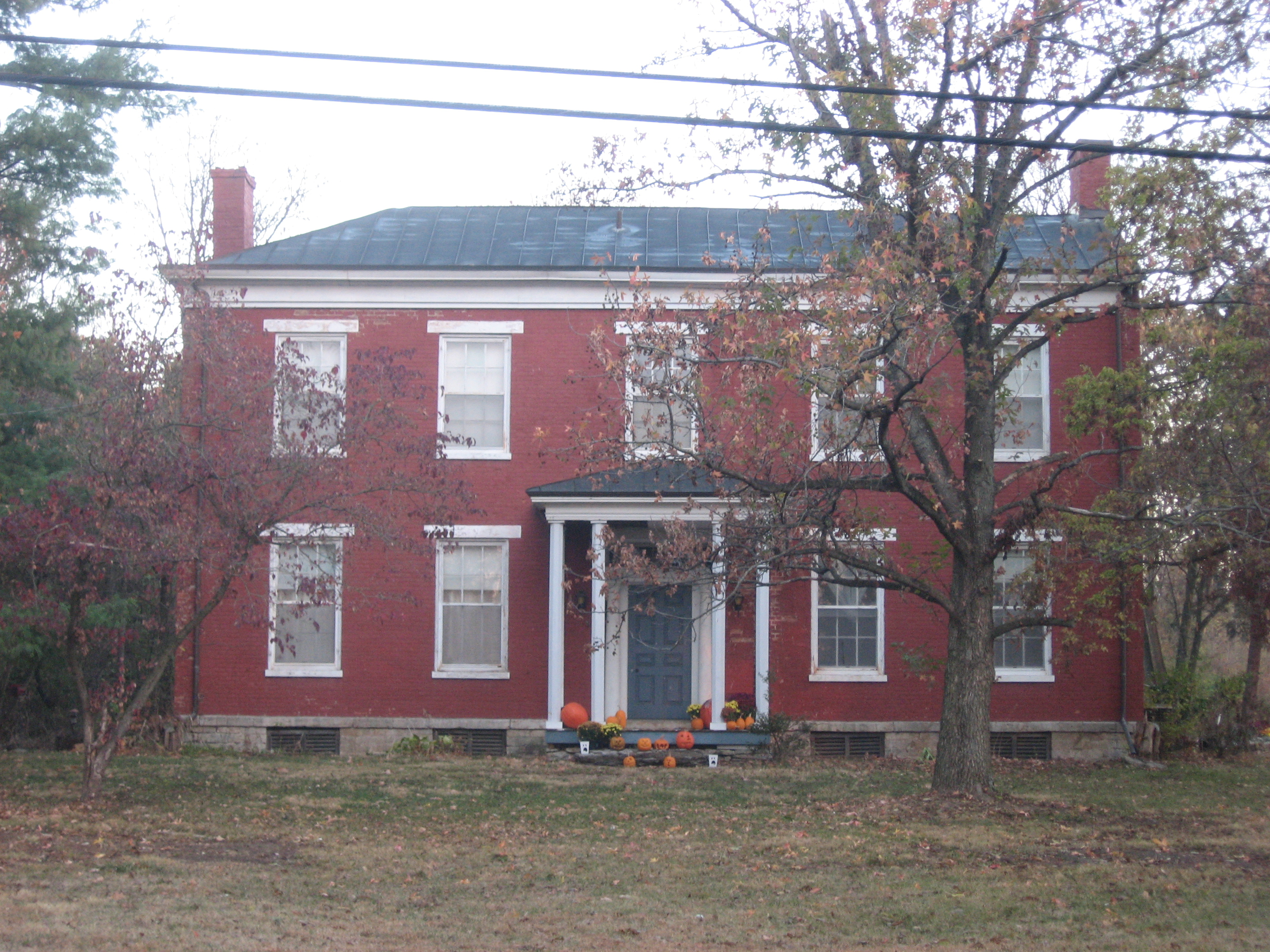 Front of the Thomas Miller House, located at 11294 U.S. Route 50 southwest of Elizabethtown in Whitewater Township, Hamilton County, Ohio, United States. Built in 1830, the farmhouse and several related buildings are listed together on the National Register of Historic Places.